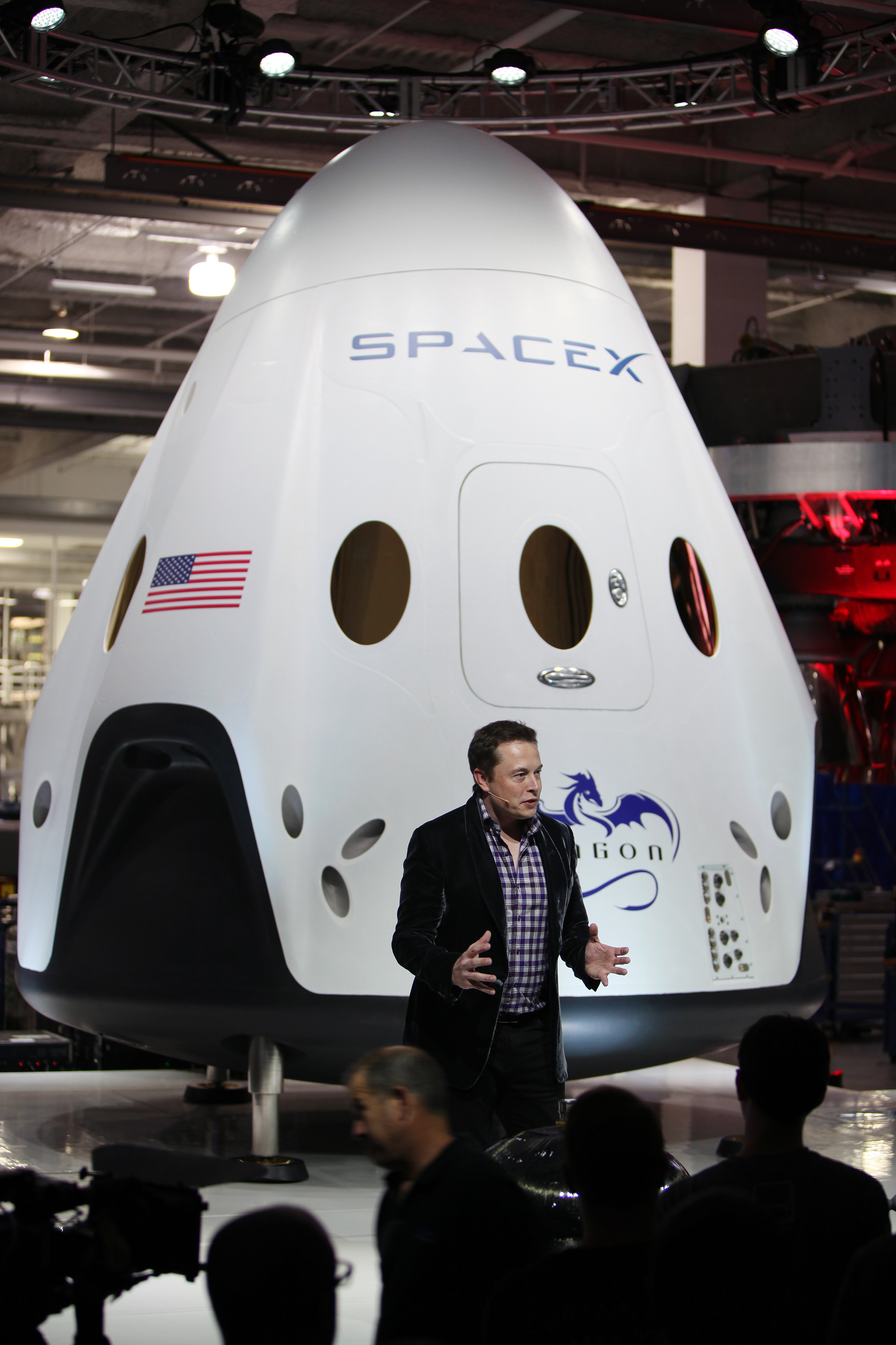 SpaceX CEO and founder Elon Musk unveils the Dragon V2 during a ceremony for the new spacecraft inside SpaceX headquarters in Hawthorne, Calif. The spacecraft is designed to carry people into Earth's orbit and was developed in partnership with NASA's Commercial Crew Program under the Commercial Crew Integrated Capability agreement. SpaceX is one of NASA's commercial partners working to develop a new generation of U.S. spacecraft and rockets capable of transporting humans to and from Earth's orbit from American soil. Ultimately, NASA intends to use such commercial systems to fly U.S. astronauts to and from the International Space Station.